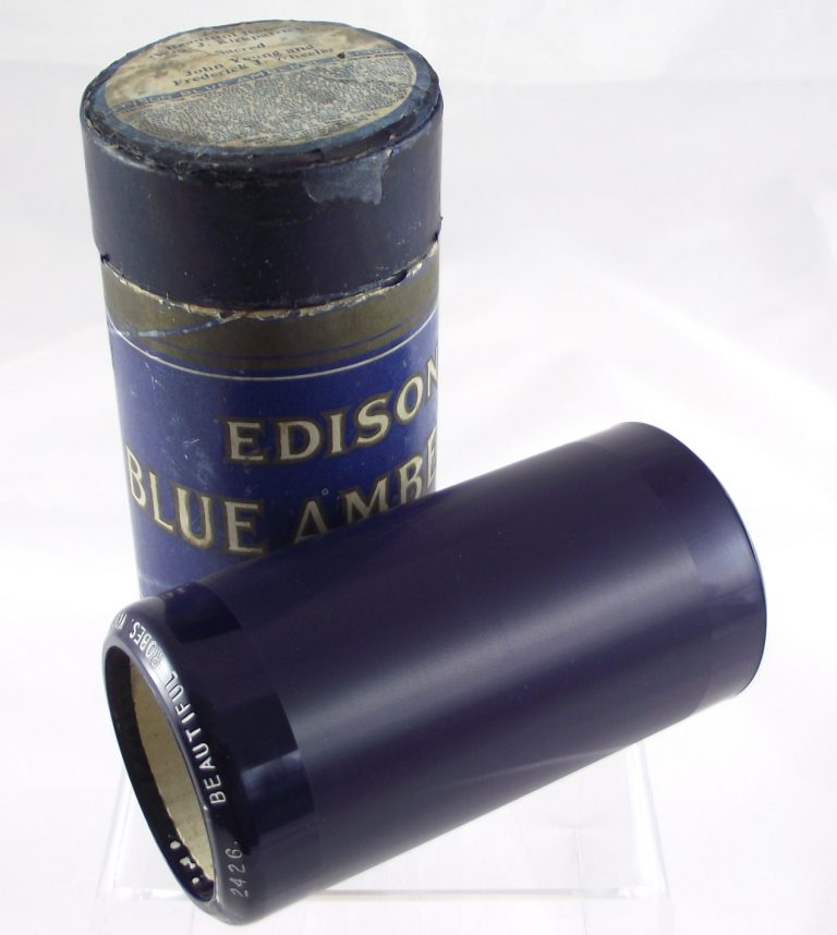 Edison "Blue Amberol" cylinder record